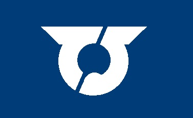 Flag of Toyosato Shiga